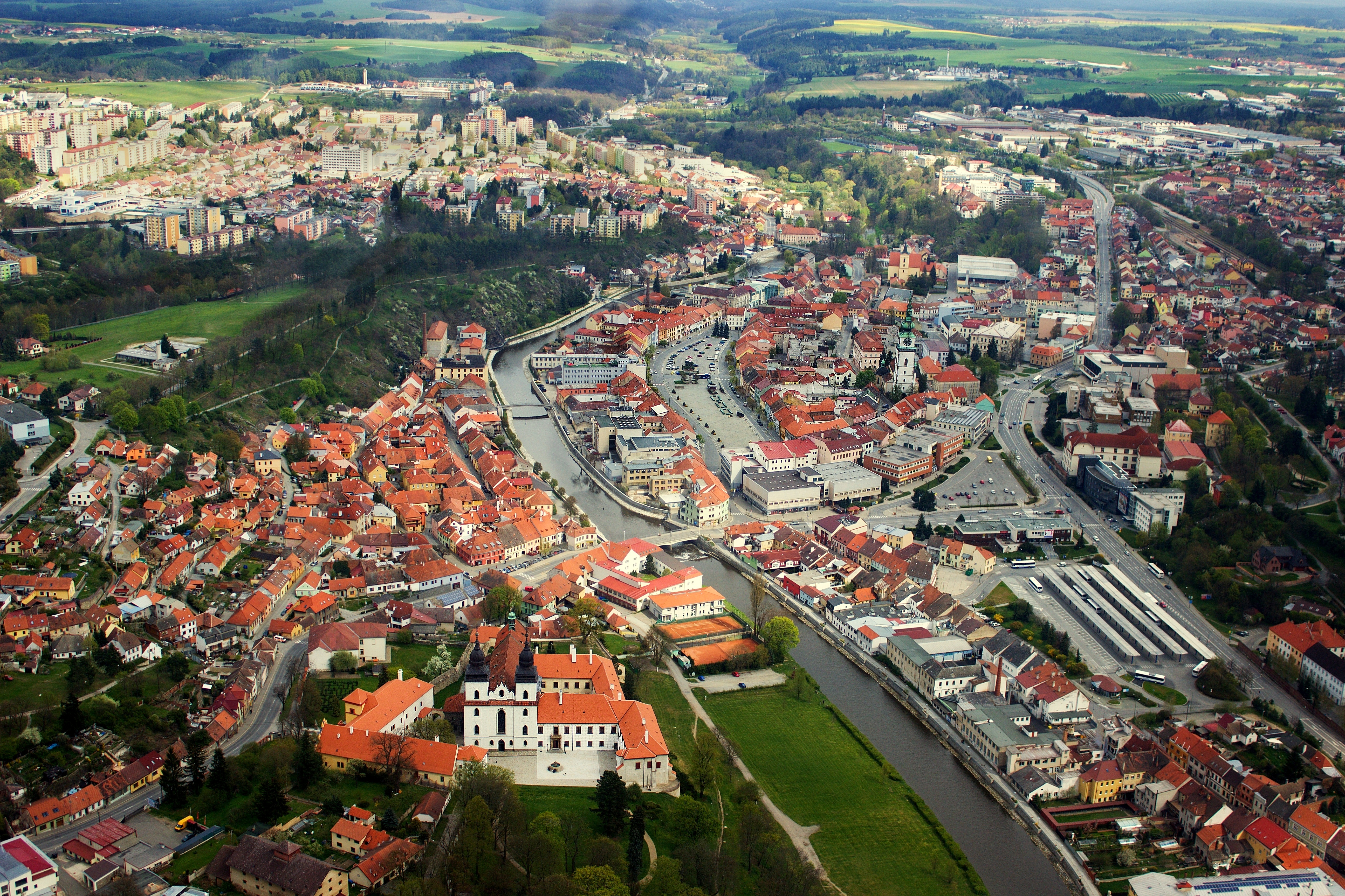 Aerial view of center of Czech town Třebíč from north-west